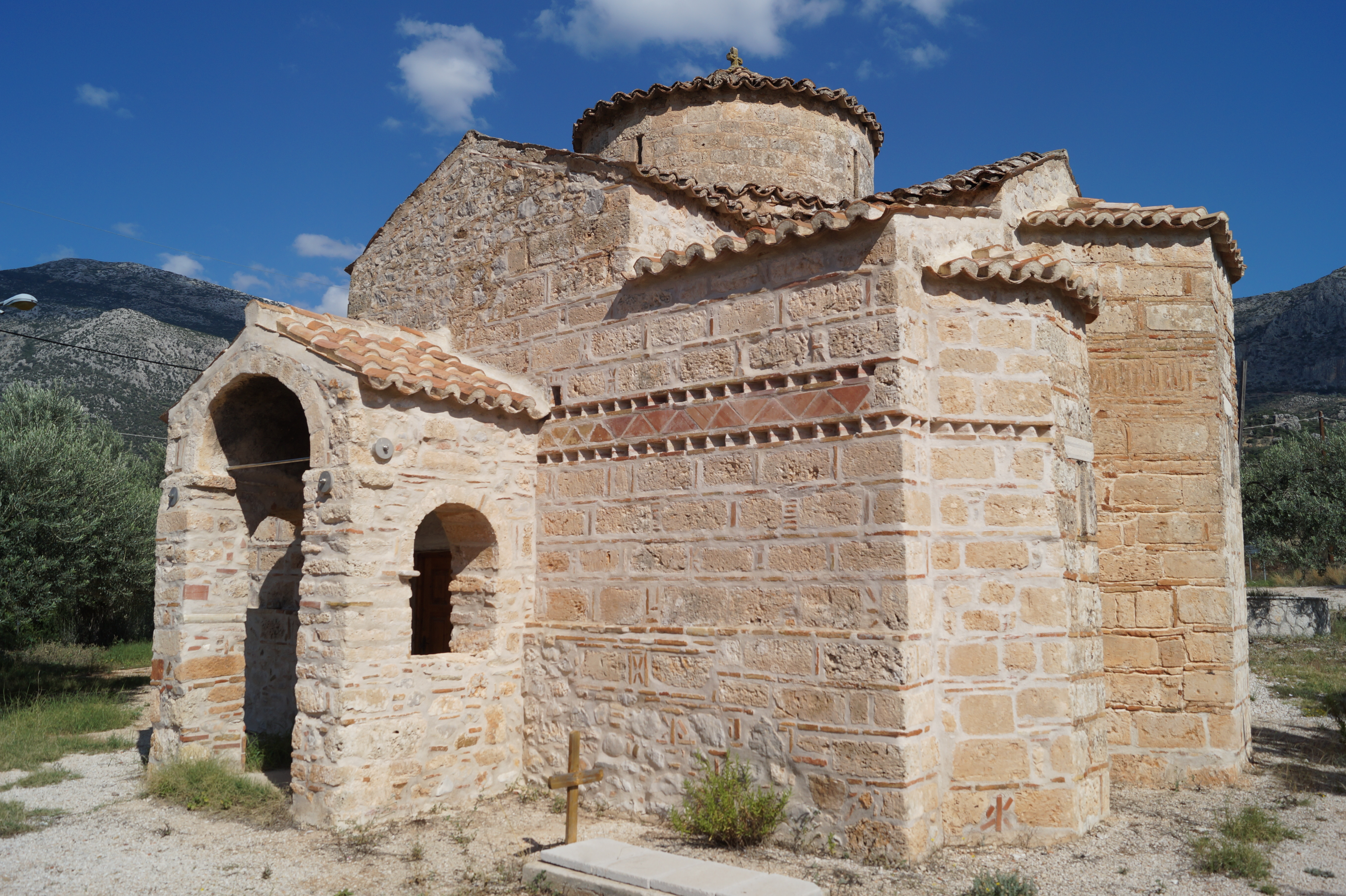 Lygourio, Argolida, Greece: Church of Agios Ioannis Theologos, 4 km north-east of Lygourio.